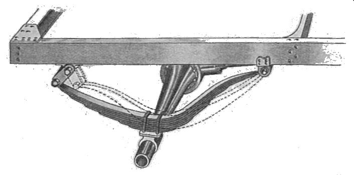 Leaf spring, showing torque reaction effects (Manual of Driving and Maintenance).jpg